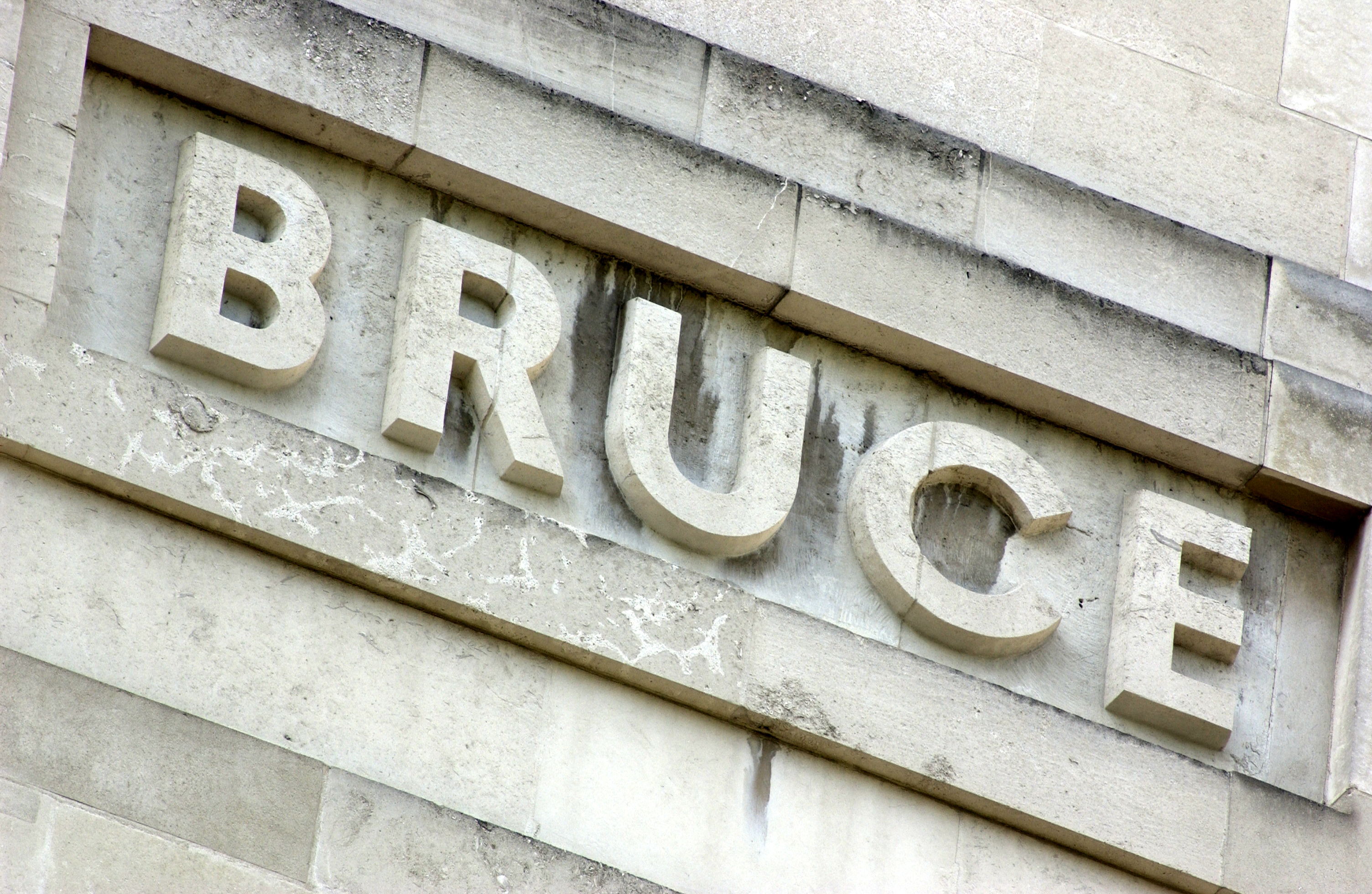 David Bruce's name as it features on the LSHTM Frieze